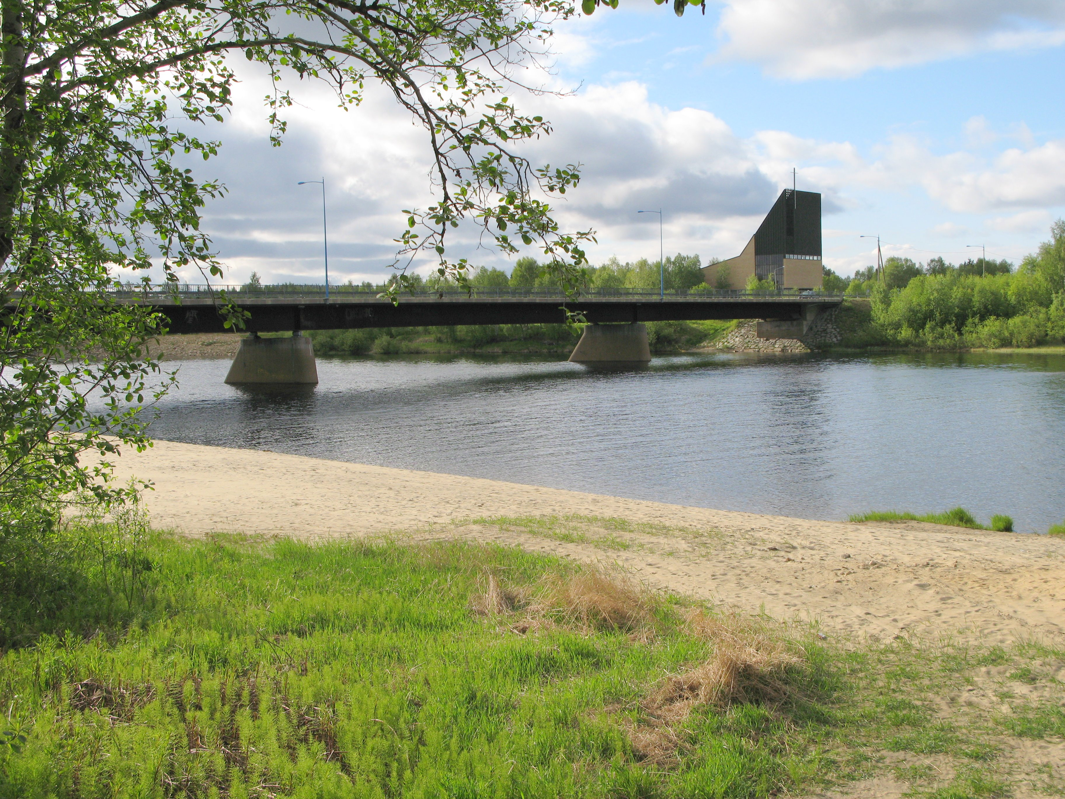 Ivalo River and bridge of the highway 4 (E75) in the village of Ivalo in Inari, Lapland, Finland. Ivalo church in the background.